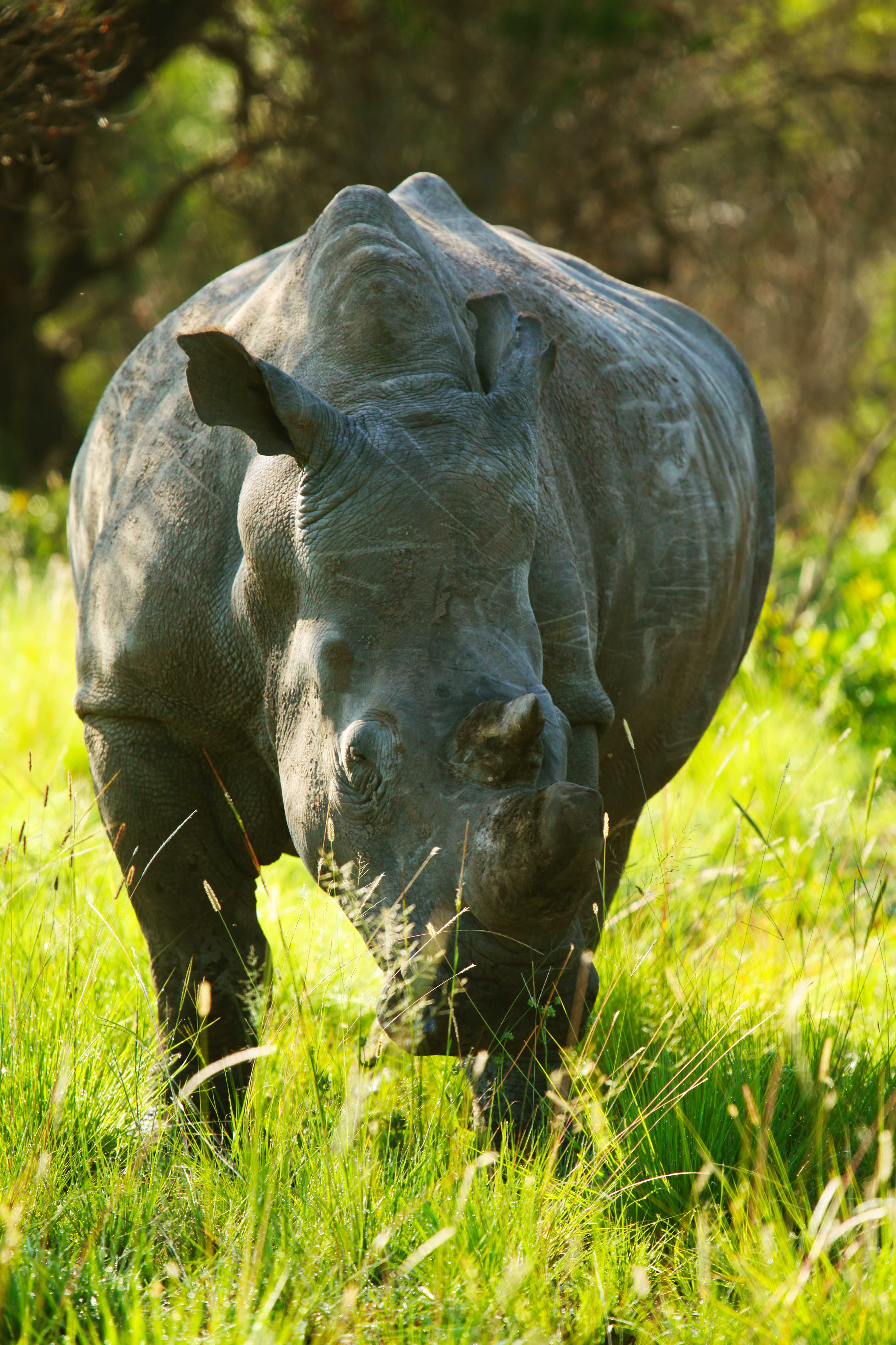 White Rhino cow in Kwafubesi, Limpopo Provence South Africa